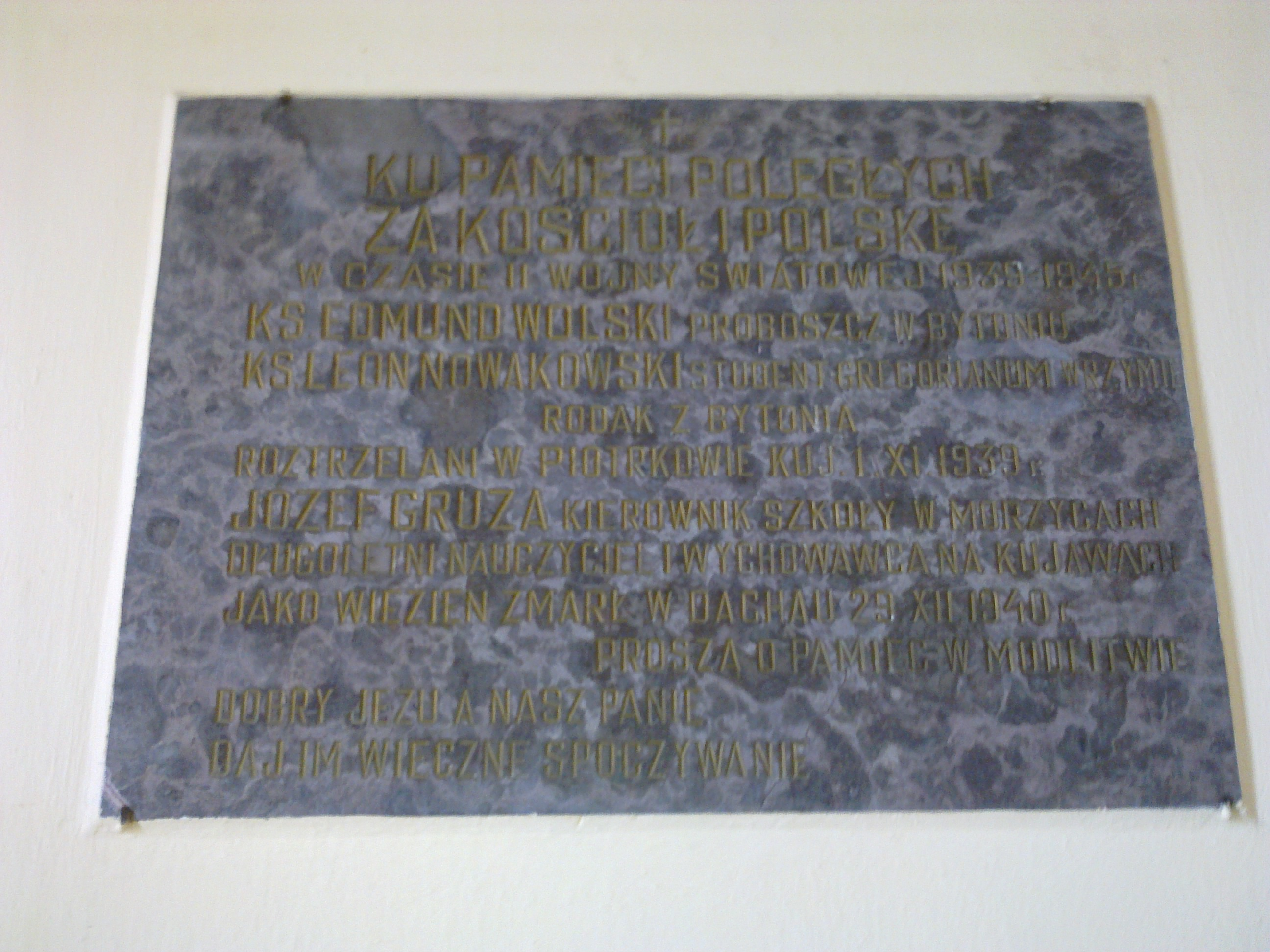 Table in catholic church in Bytoń (PL)